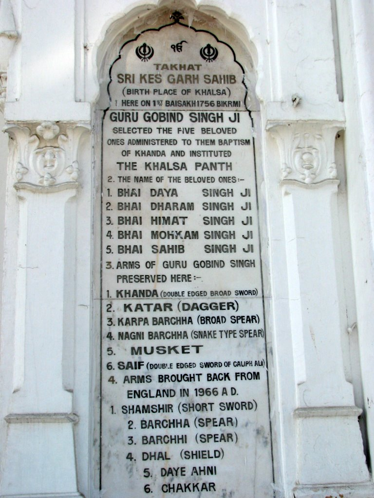 The Original Khalsa at Takht Sri Keshgarh Sahib, birthplace of the Khalsa.